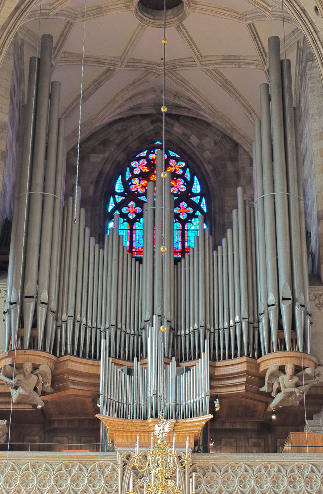 St. Stephan's Church (HDR)